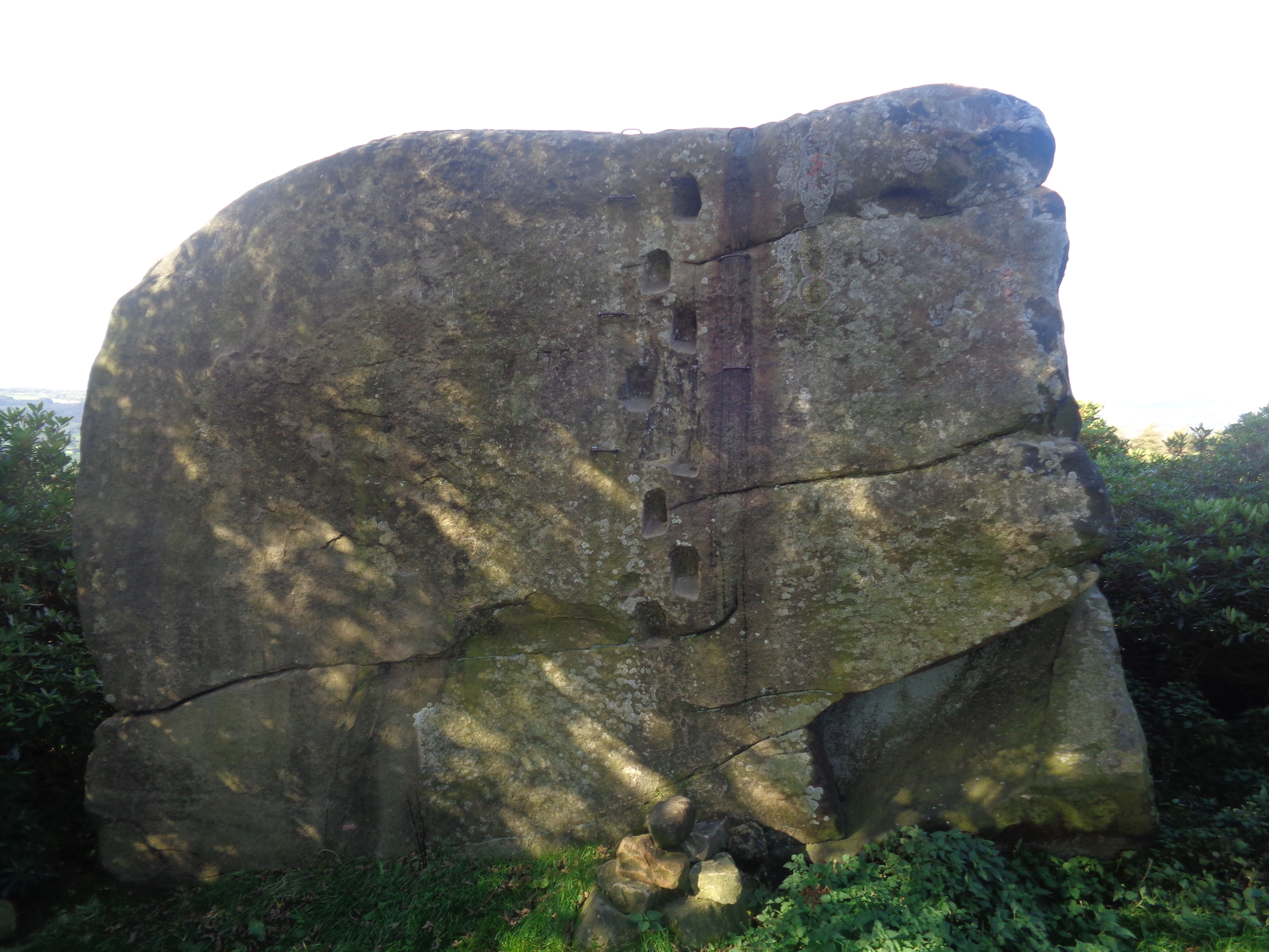 The Andle Stone (Neolithic), near Stanton Moor, Derbyshire